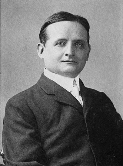 John F. Fitzgerald (1863 - 1950), an American politician, a Mayor of Boston